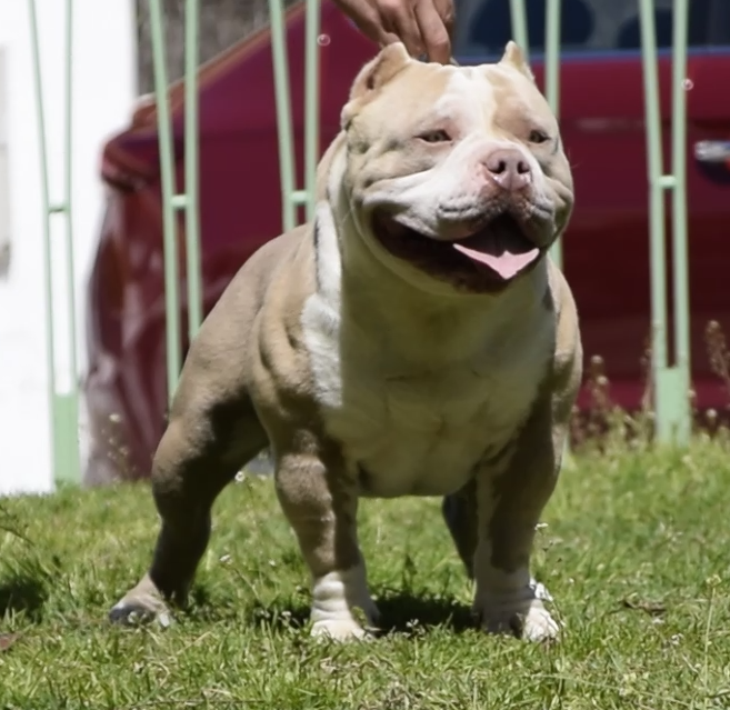 American Bully